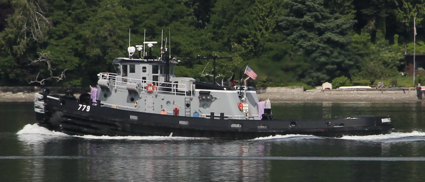 779 (presumed to be Manhattan in Rich Passage returning to Bremerton after escorting USS John C. Stennis (CVN-74). Photo taken from MV Kaleetan.